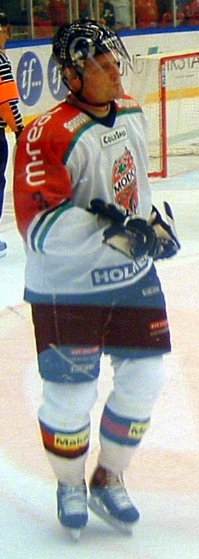 Ice hockey player Mattias Timander of MODO Hockey in E.ON Arena, Timrå, Sweden